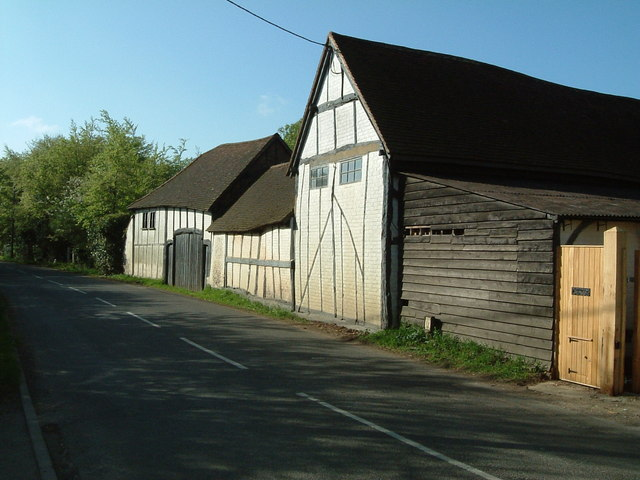 Half-timbered farm buildings. According to the map this is the unusually named "Huge Farm" - but I couldn't find a sign to confirm this.